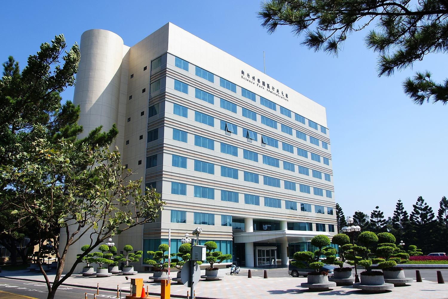 Hsinchu Science and Industrial Park Administration